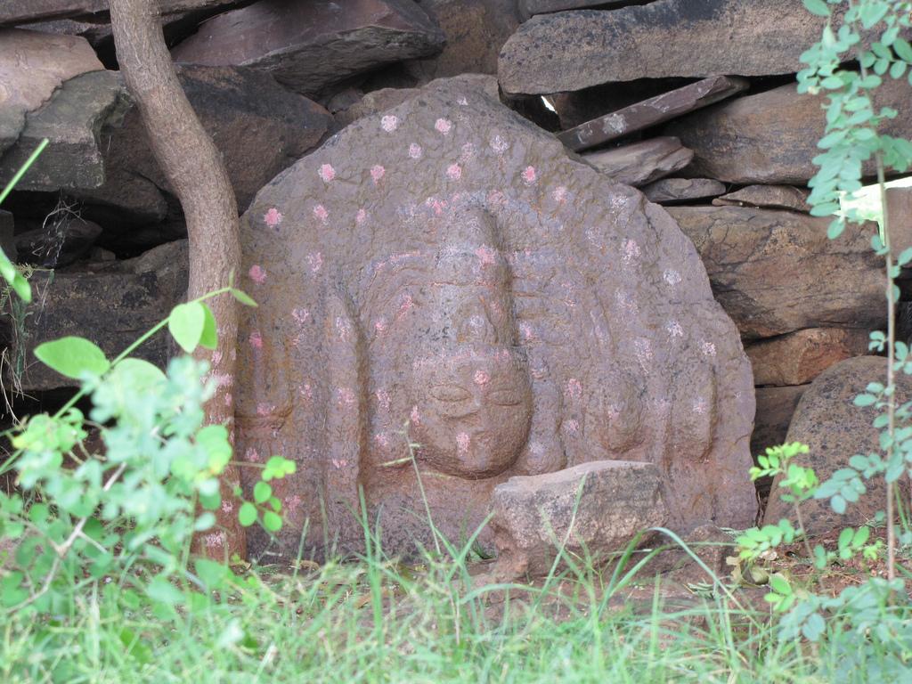 Goddess Deity relief near Nagarjunakonda, Nagarjunasagar, Andhra Pradesh